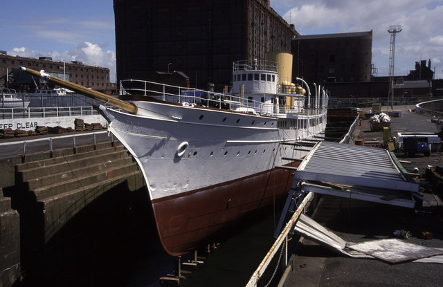 SY Nahlin, Clarence Graving Dock, Liverpool A famous steam yacht from 1930. Edward VIII and Mrs Simpson had a Mediterranean cruise on her (1936) and the only place to put a double bed was the library. Steam turbine powered and repatriated in poor condition after many years in Romania. The Stanley Dock tobacco warehouse is behind. This is the first view of this particular dock. The yacht has now been totally restored and converted to diesel electric propulsion(2 x 2MW) in Germany. Initially at the Rendsburg yard and afterwards at Blomh + Voss Hamburg. The vessel was restored to an almost identical exterior but with totally new decks and bulkheads. Internally completely new and modern with full new navigational and communications suite. This information from an anonymous contributor.